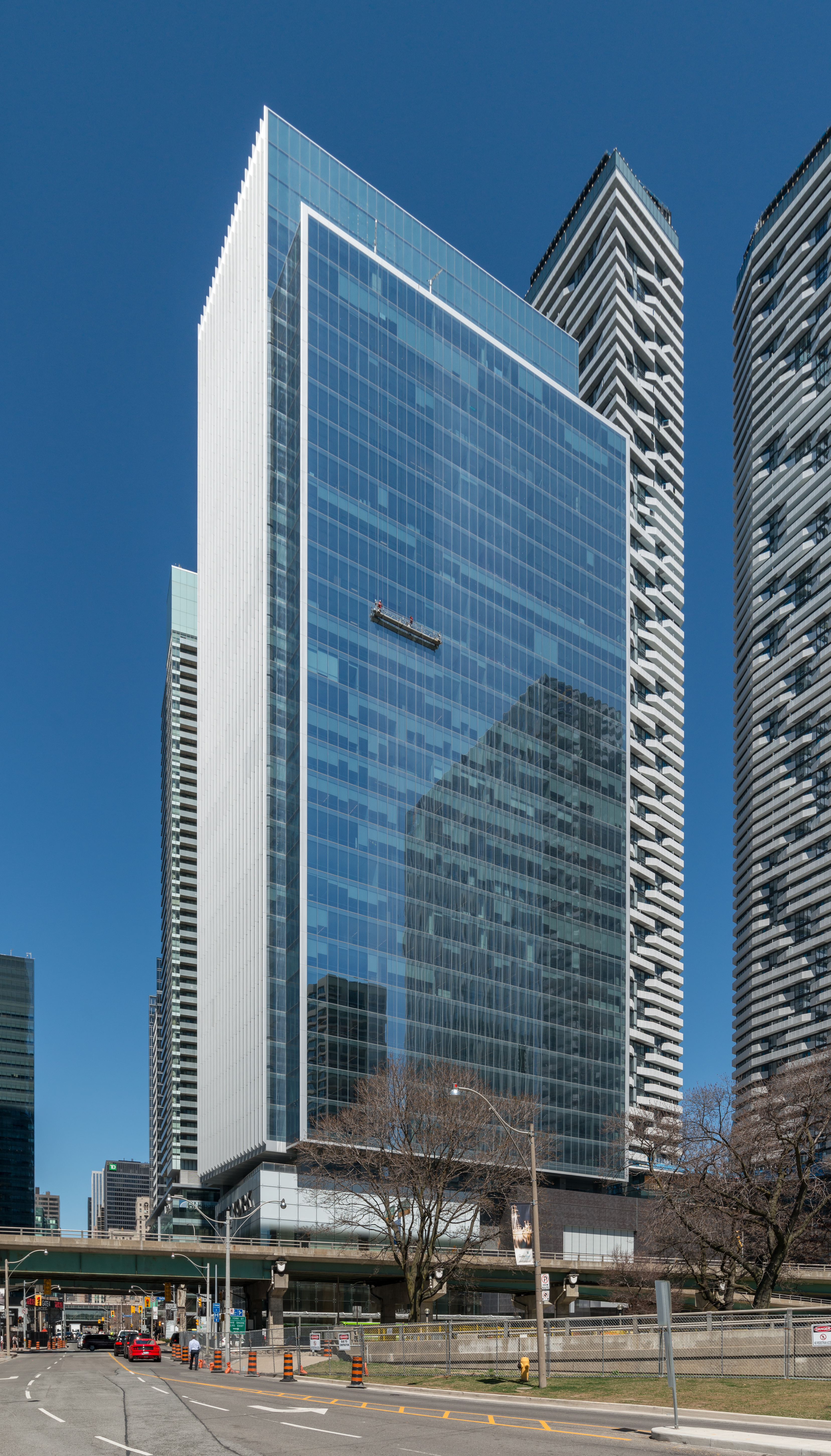 A south view of the One York tower, Downtown Toronto